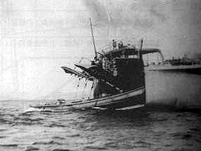 Stern of Imperial Japanese Army's landing craft carrier "Shinshū Maru". The crew is preparing to launch some landing crafts.